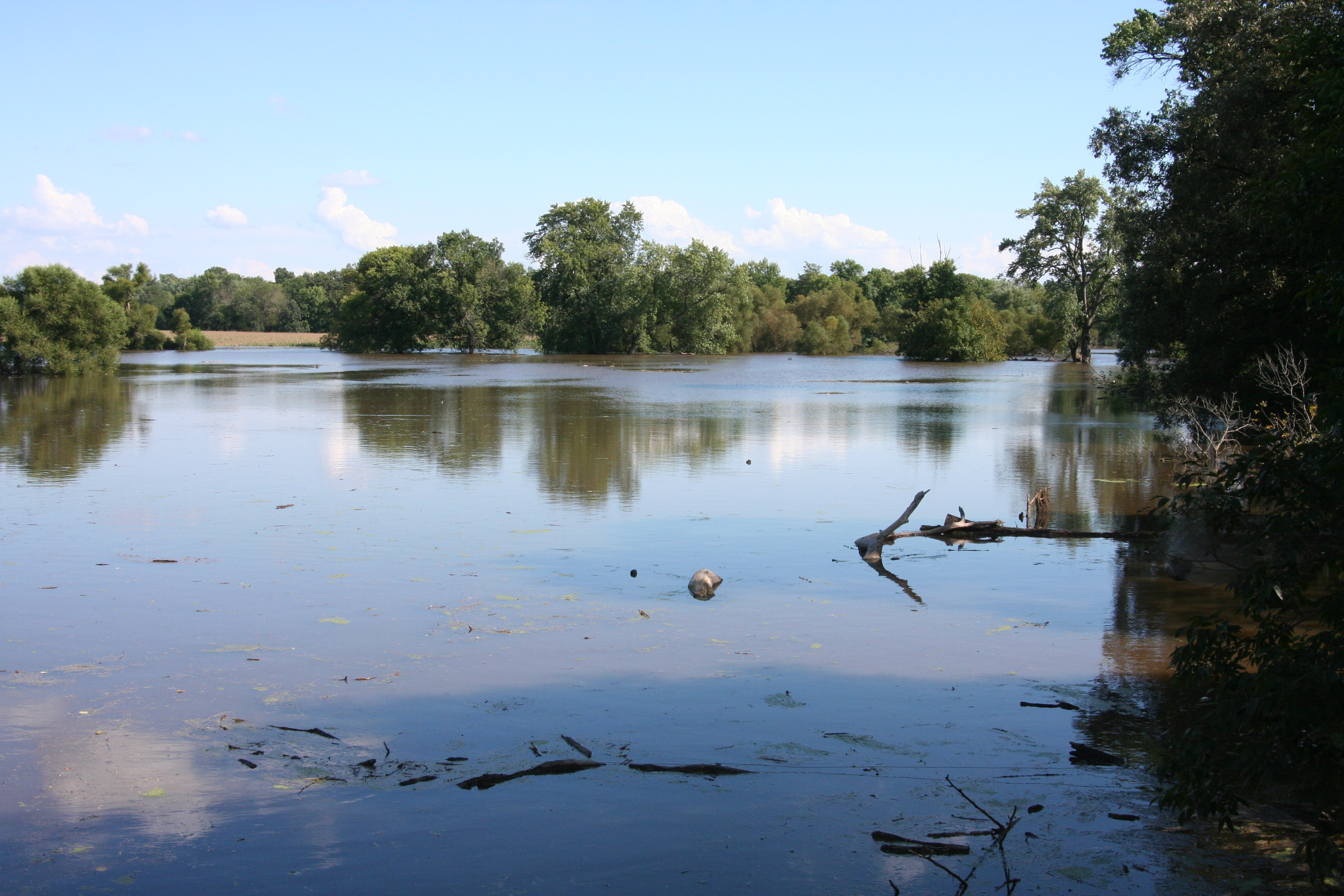 The Stillman Creek surged over its banks when it backs up from a flooded Rock River on Kishwaukee Road, north of Route 72, in Marion Township, Illinois, USA during the 2007 Rock River Flooding. See also Midwest flooding of 2007.